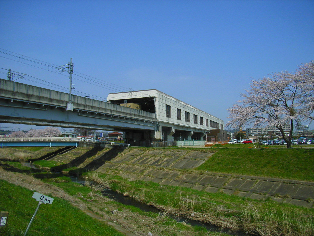 Tomizawa Station and Zaru River. Ōnoda, Taihaku Ward, Sendai, Miyagi Prefecture, Japan. From the right bank toward the north-north-west. Cherry blossoms on the bank.